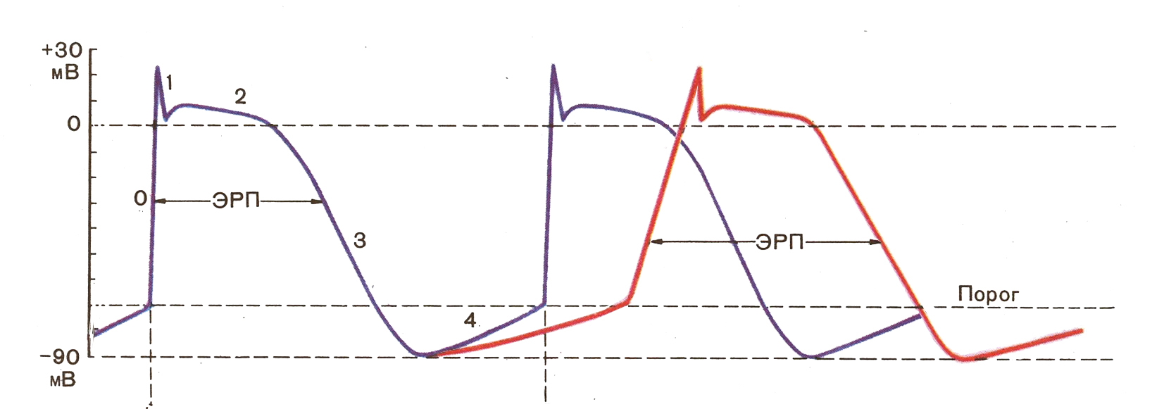 Iс influence on action potential